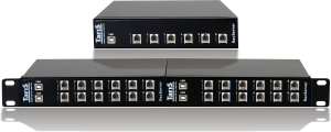 Photo from the Multiline Telephone Recorder 601 and from the Multiline Telephone Recorder 2401 from Taris Electronics